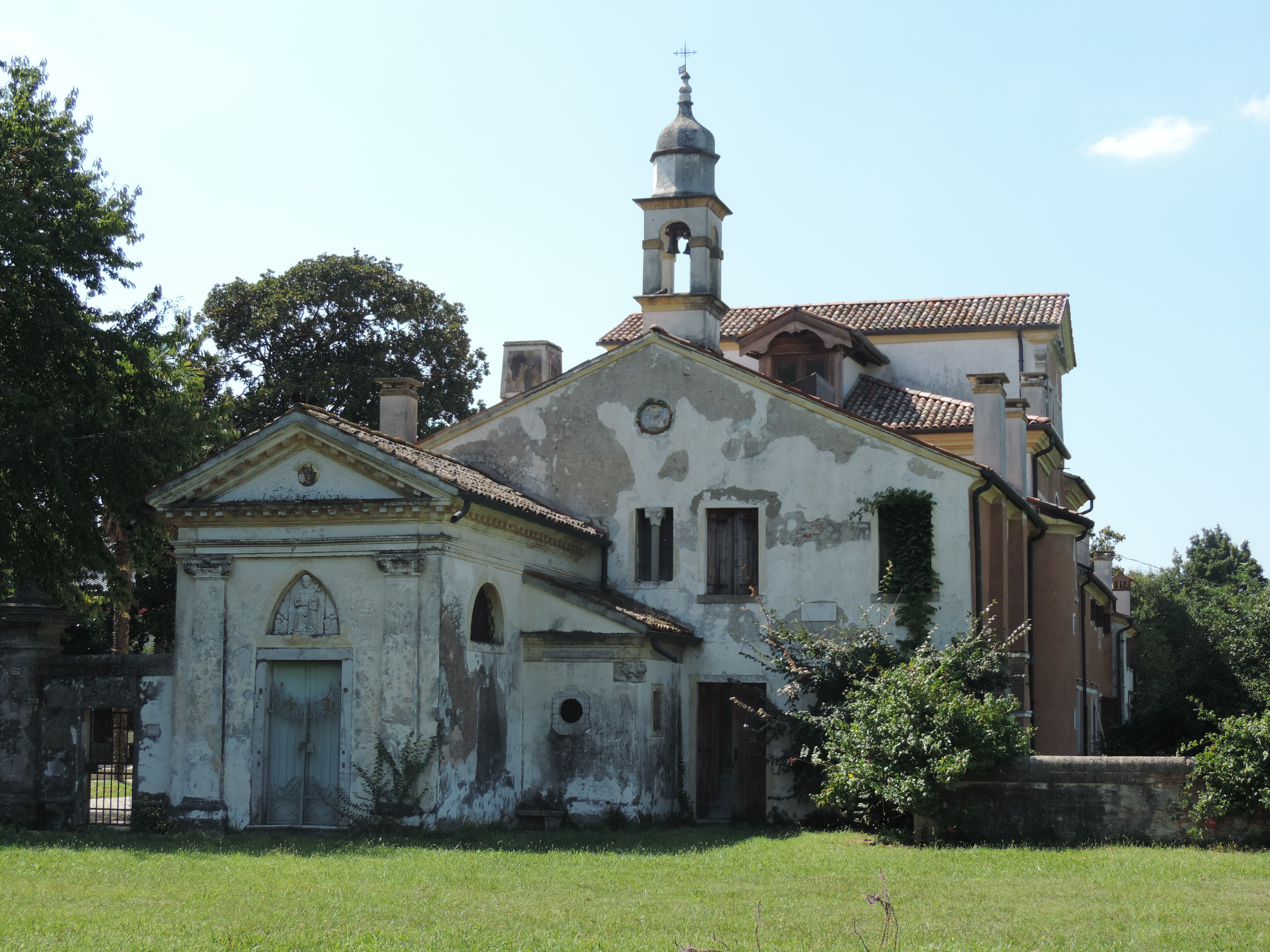 Villa Guidini a Zero Branco vista da est.